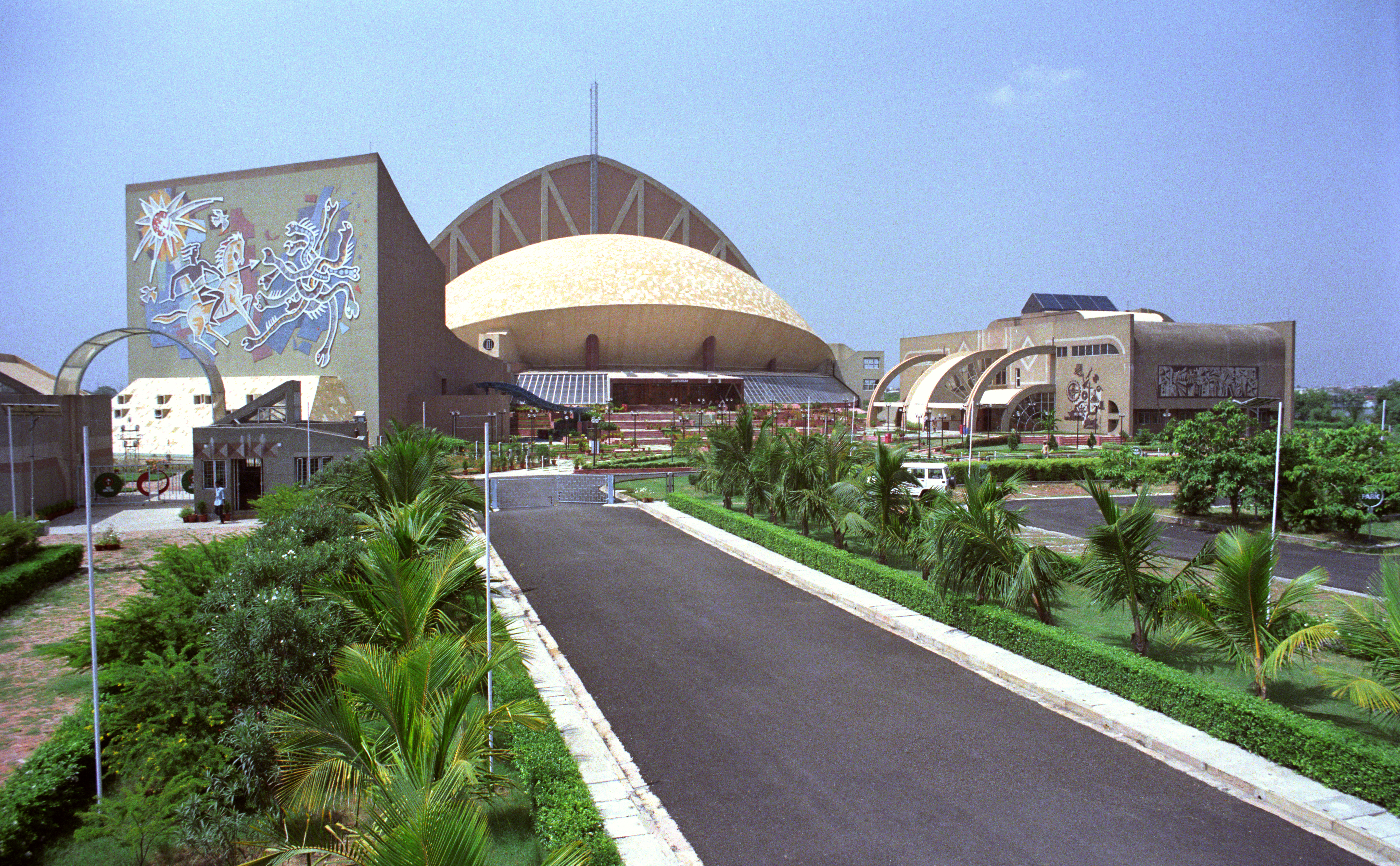 The Convention Complex of the Science City, Kolkata was inaugurated on 21 December, 1996 by Prof. Dr. Paul Jozef Crutzen , Nobel laurreate in chemistry in 1995, in presence of Jyoti Basu the then Chief Minister of West Bengal, Dr. Saroj Ghose, the then director general and Dr. A P Mitra. This shot was taken before the inauguration by using 24 mm lens on 35 mm Nikon camera.